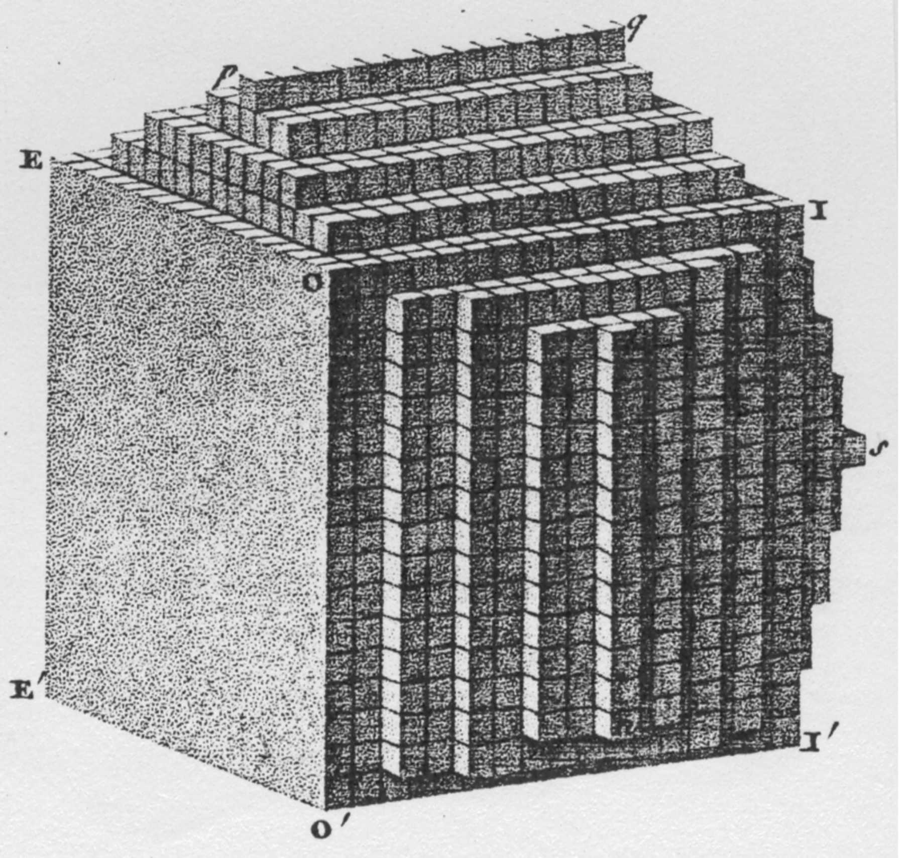 The piling of the cubic `integrant molecules' which forms the pentagonal dodecahedron of pyrite. Notice the decrescence of the molecular lamellae in the proportion of 2:1, which leads to an interfacial angle at pq of 126° 52′ 12″, closely corresponding to that of the empirical crystal, viz 127° 56′ 08″ (Haüy, R.-J. Traité de Minéralogie. Paris: Louis, 1801.]